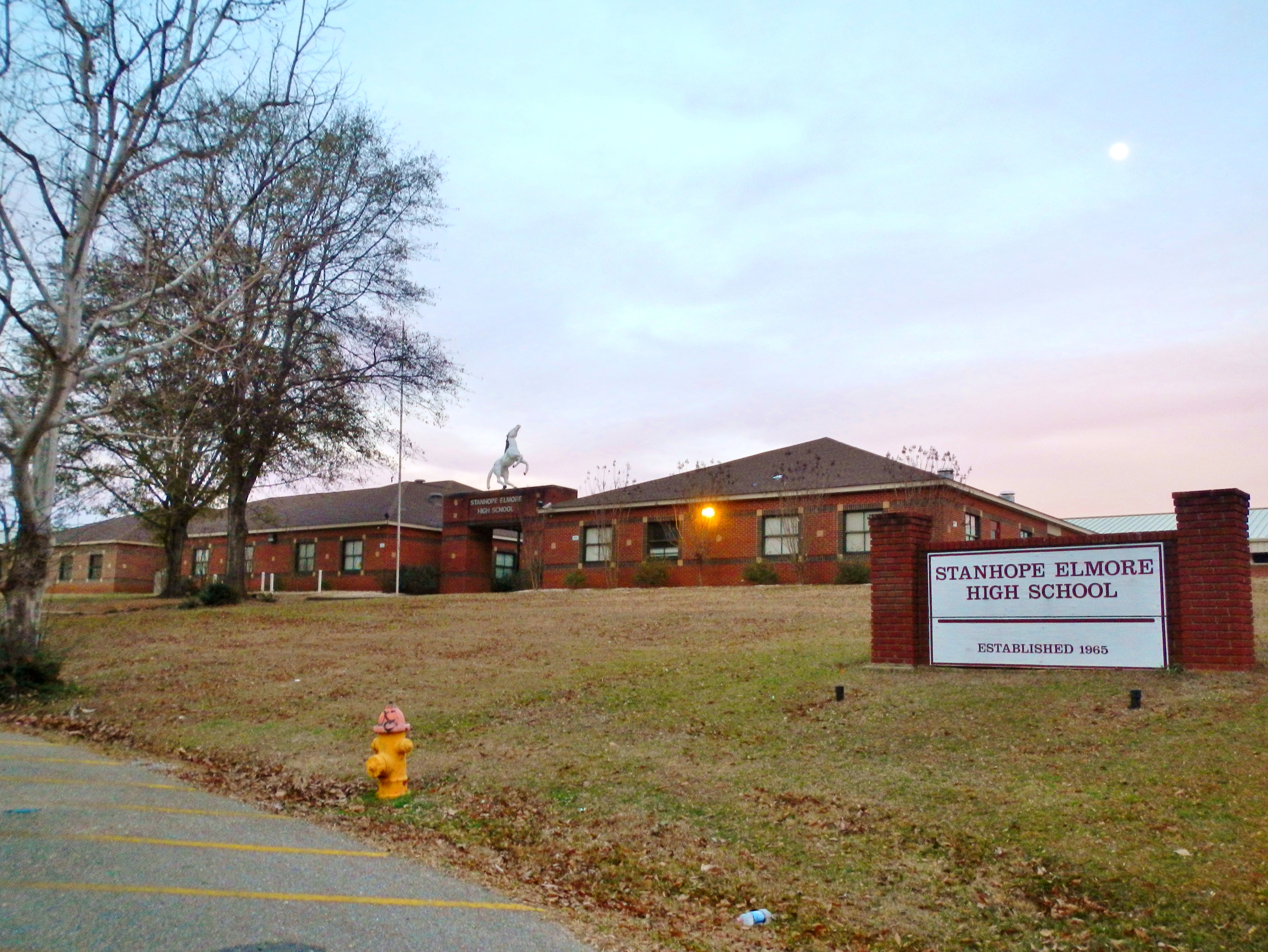 This is a photograph of Stanhope Elmore High School in Millbrook, Alabama.